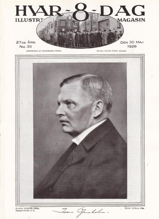 Ivan Öfverholm (1874–1961)Place: Sweden